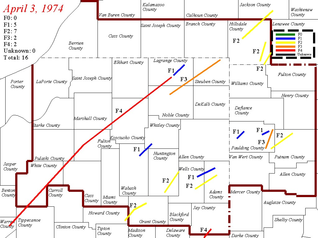 Map of the tornadoes that occurred in Northern Indiana during the Super Outbreak of 3 of April 1974. The complete description of the event in Indiana can be found at NWS South Bend